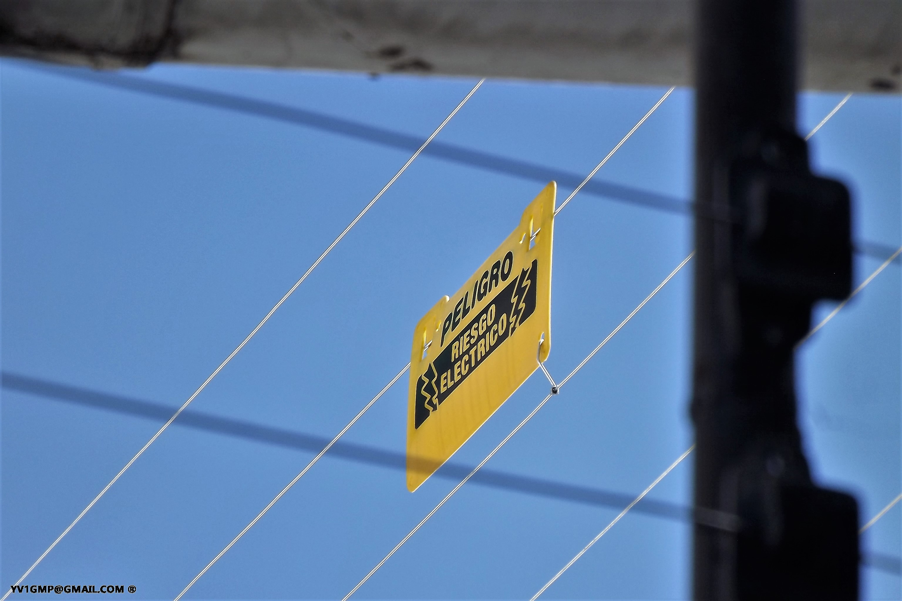 Electrical hazard warning.